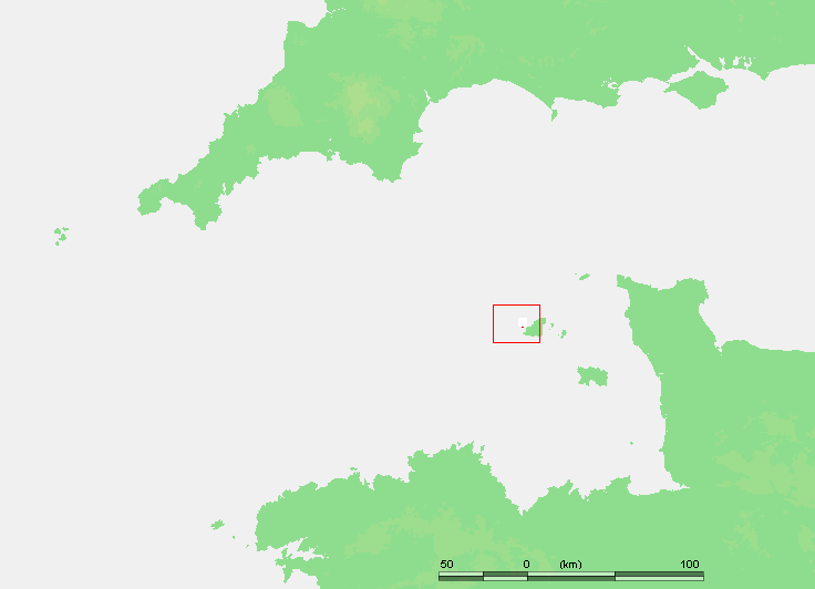 Channel Islands - Lihou.PNG